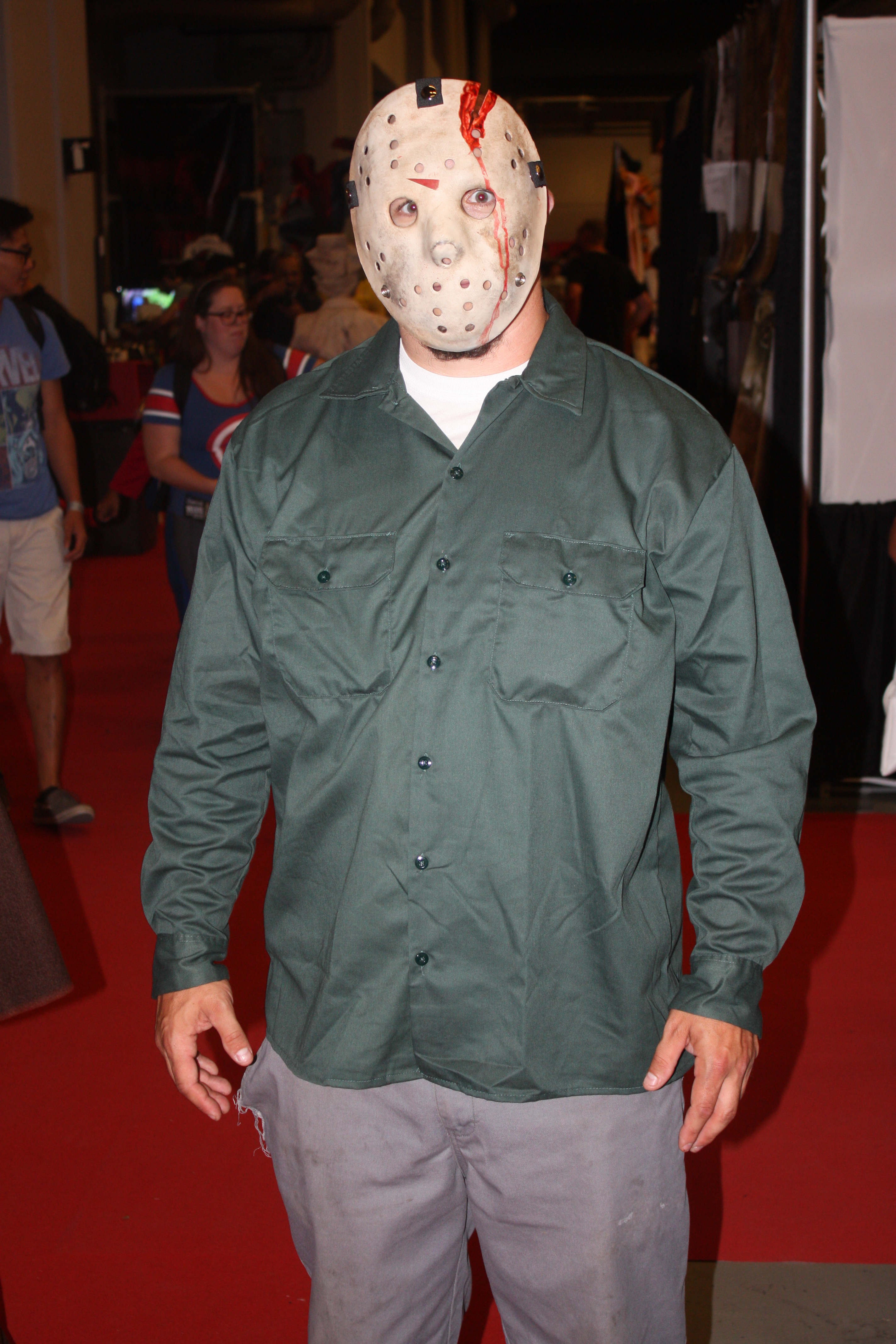 Cosplay one day one of Montreal Comiccon 2015: Jason Voorhees from Friday the 13th: The Final Chapter (1984)